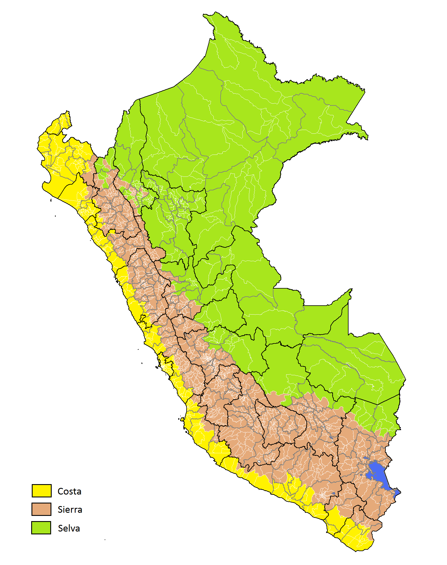 Map of natural regions of Peru